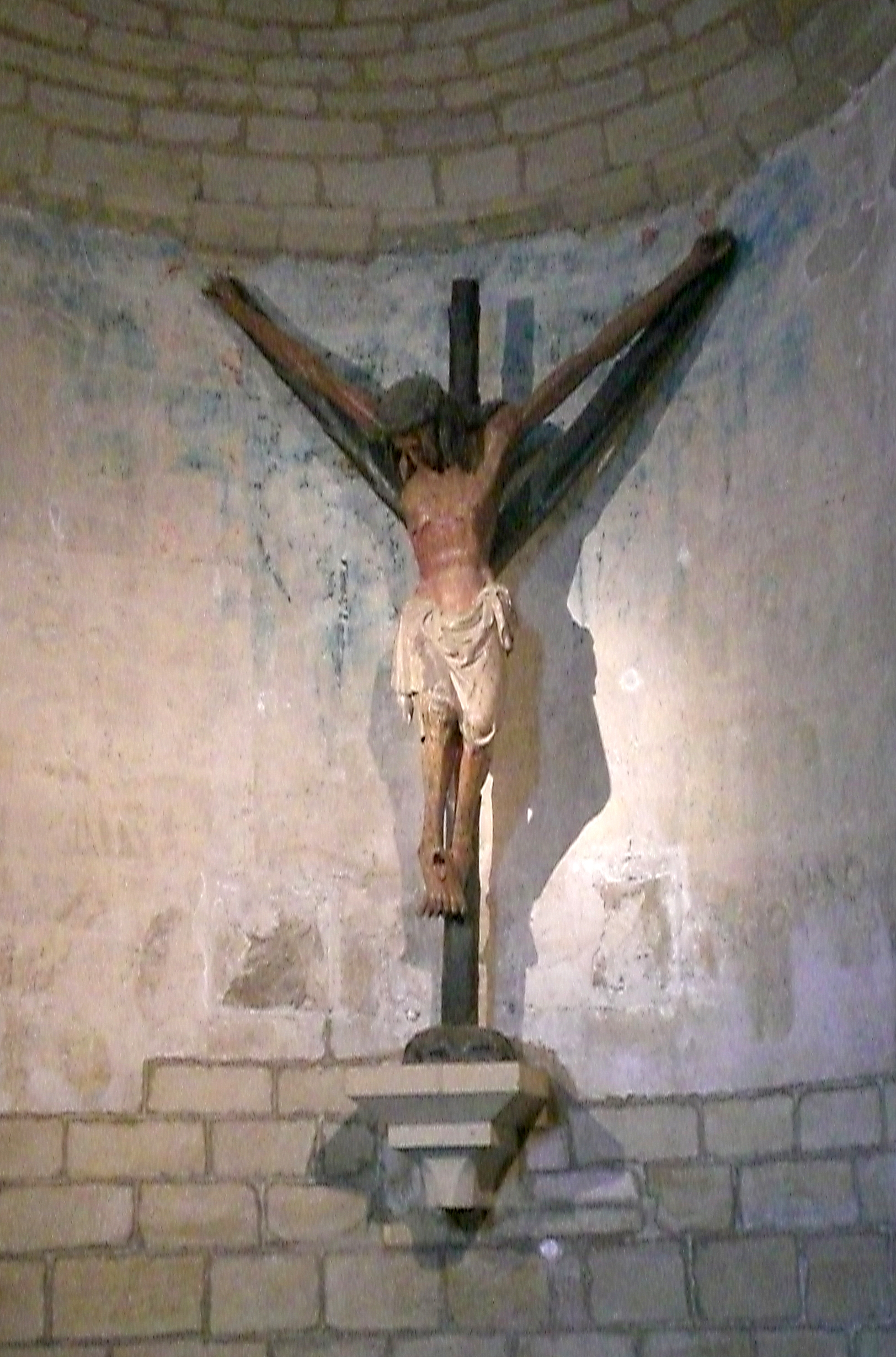 Crucifijo Church: Christ of the fourteenth century wood nailed to the cross in position Y, the work probably made ​​by a German pilgrim.